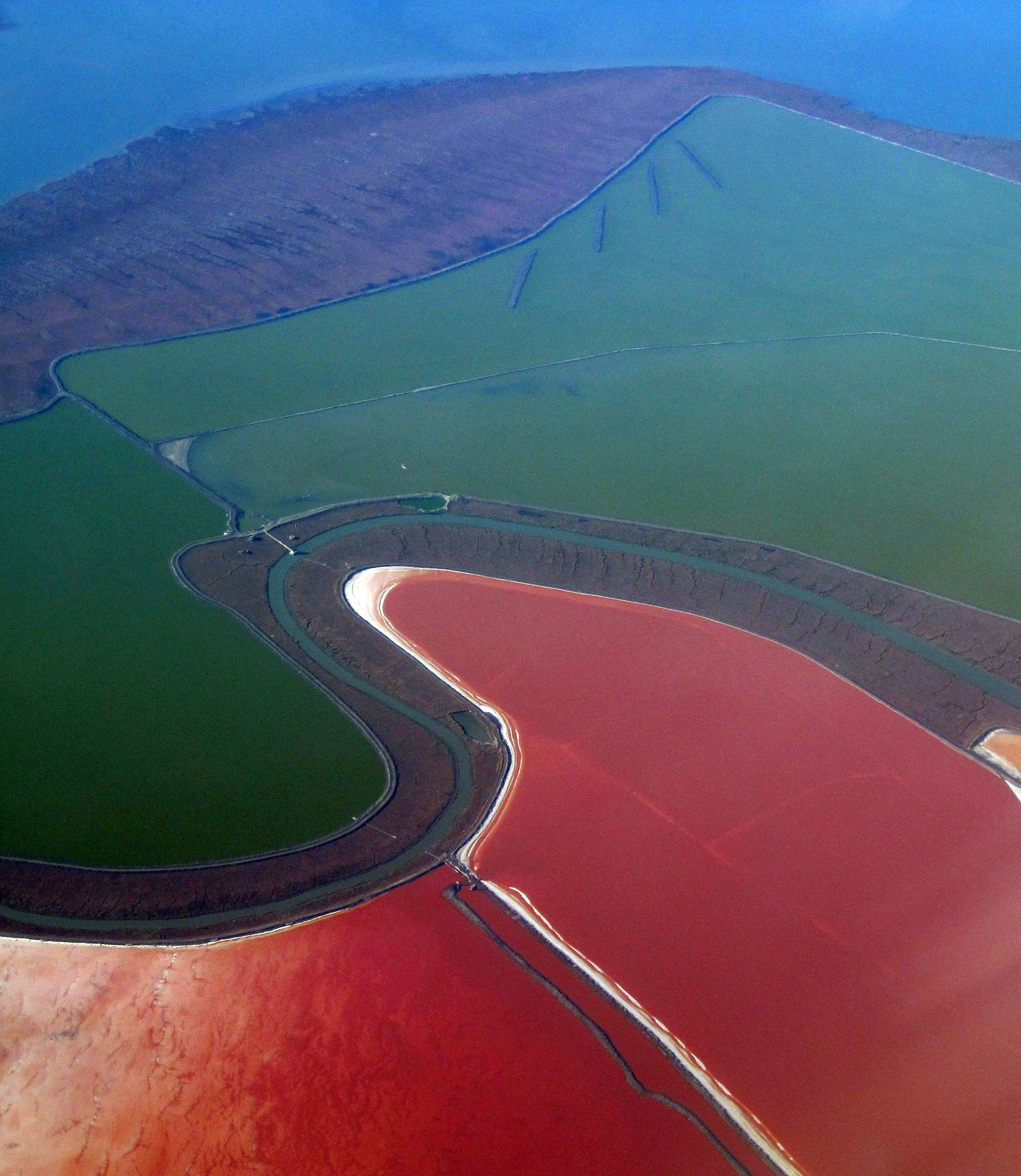 High power electrical supply towers and lines cross salt ponds of the South Bay. Salt evaporation ponds formed by salt water impounded within levees in former tidelands on the shores of San Francisco Bay. There are many of these ponds surrounding the South Bay. As the water evaporates, micro-organisms of several kinds come to predominate and change the color of the water. First come green algae, then darkening as orange brine shrimp predominate. Finally red predominates as dunaliella salina, a micro-algae containing high amounts of beta-carotene (itself with high commercial value), predominates. Other organisms can also change the hue of each pond. Colors include red, green, orange and yellow, brown and blue. Finally, when the water is evaporated, the white of salt alone remains. This is harvested with machines, and the process repeats.